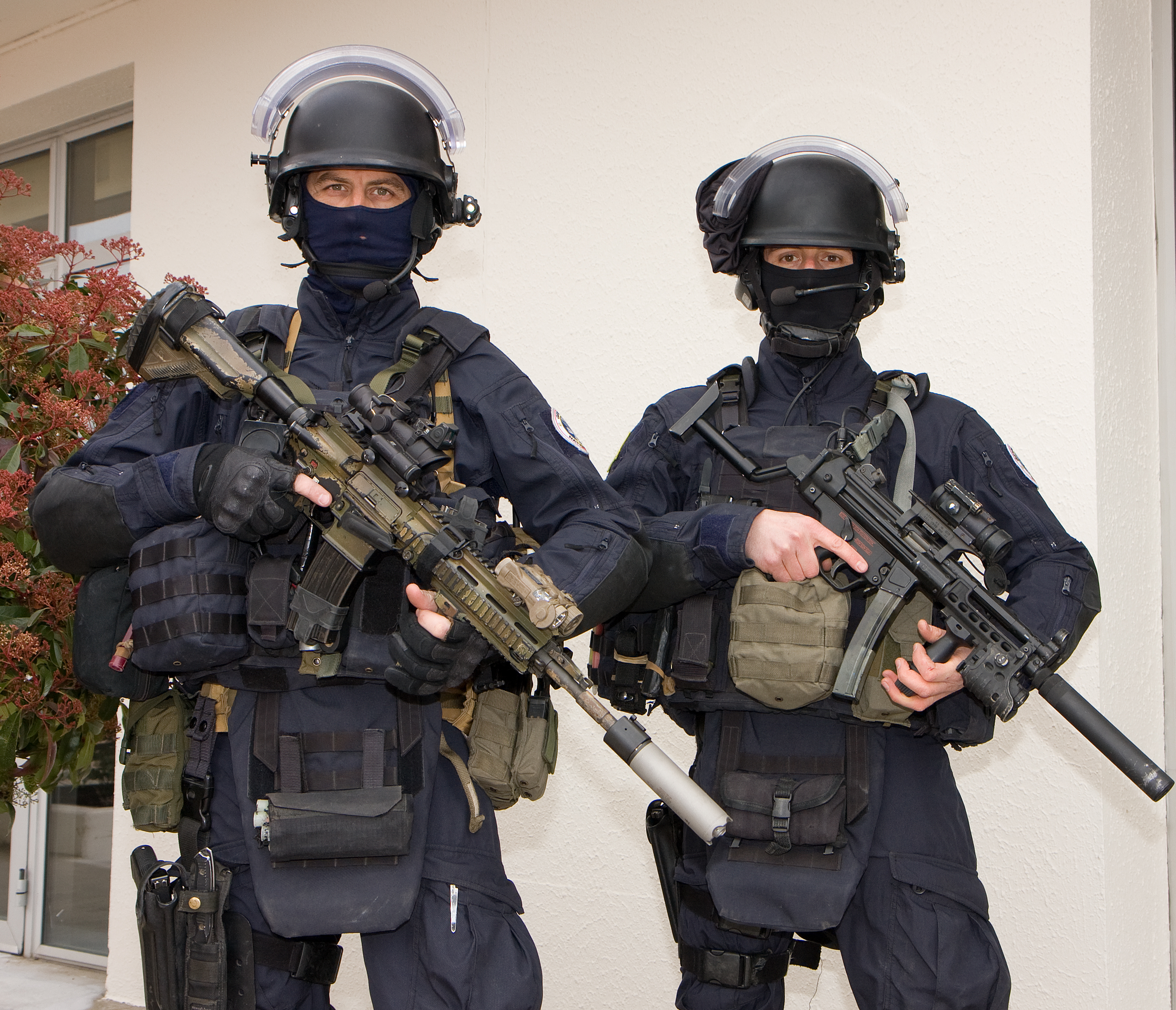 French Gendarmerie GIGN swat troopers